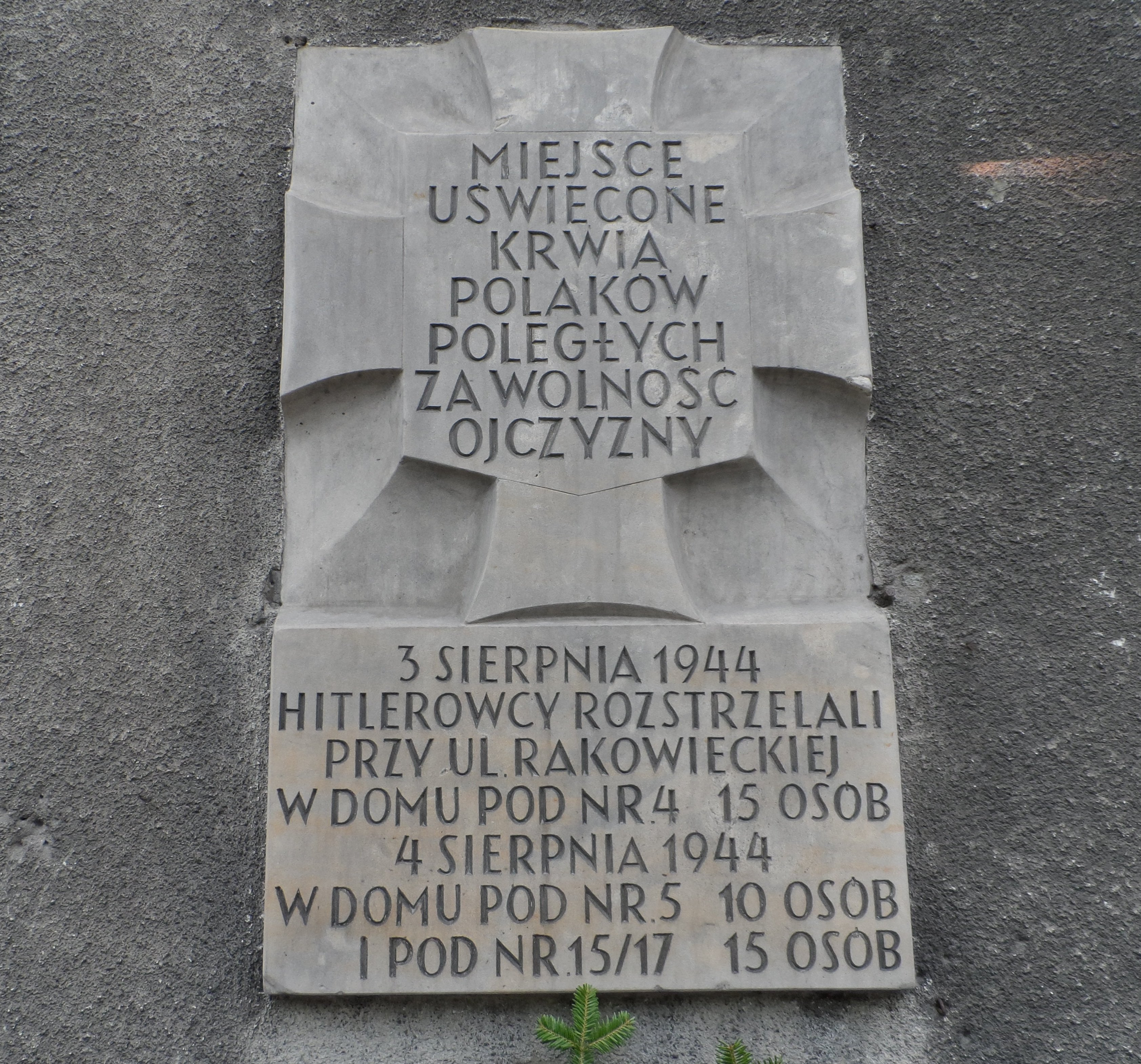 Plaque at Rakowiecka street in Warsaw, commemorating Polish civilians murdered in this place by Nazi Germans during the Warsaw Uprising in August 1944.